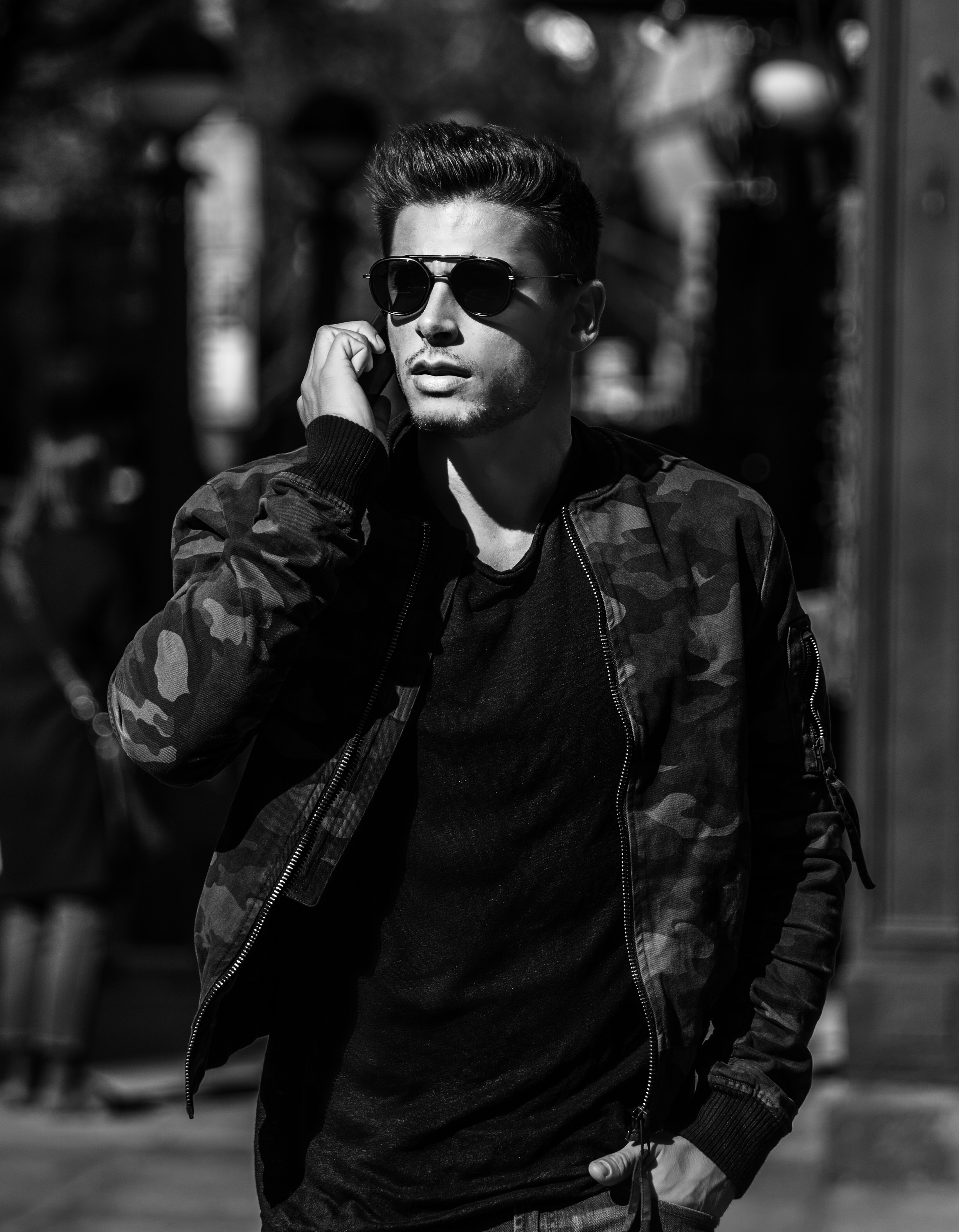 New York - March 2017